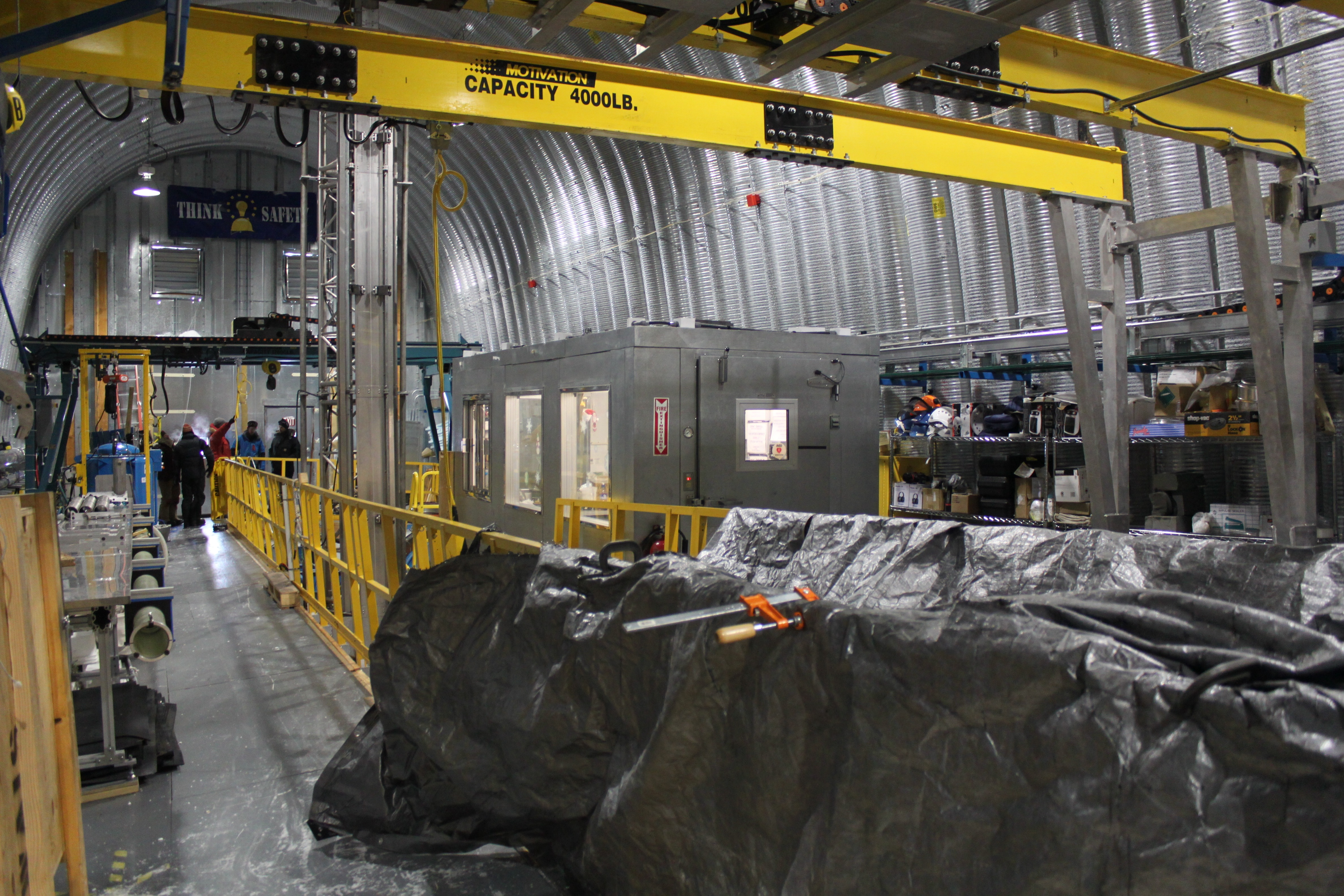 Thanksgiving tour of the Drilling Facility